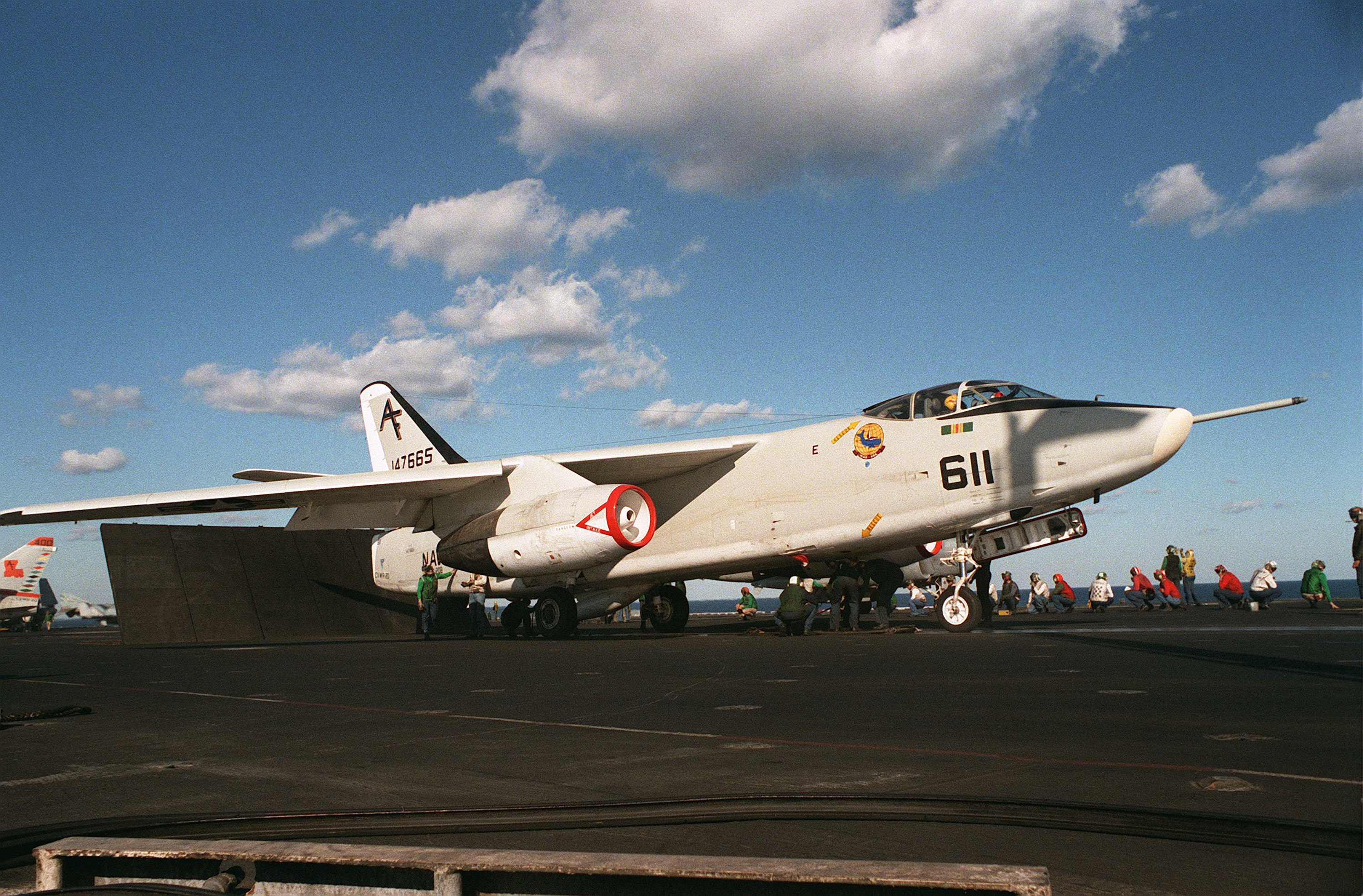 U.S. Navy flight deck crewmen perform a preflight check on a Douglas KA-3B Skywarrior (BuNo 147995) of U.S. Naval Reserve aerial refueling squadron VAK-208 Jockeys aboard the nuclear-powered aircraft carrier the USS Dwight D. Eisenhower (CVN-69) on 15 September 1985. The Douglas A-3B 147665 was converted to an KA-3B in June 1967, to an EKA-3B in July 1967, and back to an KA-3B in February 1976. The plane finally crashed into Pyramid Lake, Nevada (USA), during night low level mission in January 1987, killing the crew of 3.